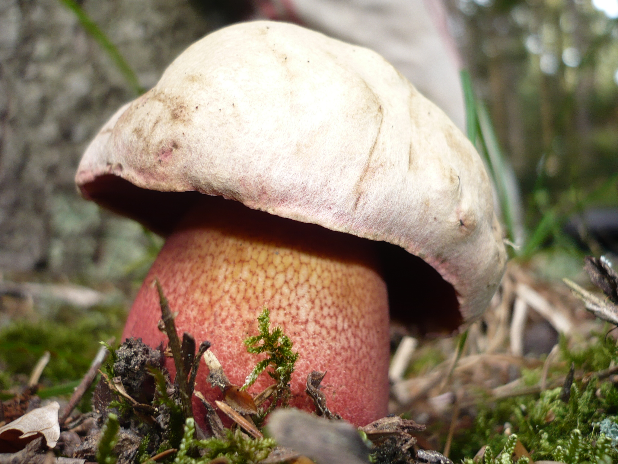 A fruit body of the bolete fungus Boletus rubrosanguineus (Walty) ex Cheype. Photographed in Marchgraben, Wöllersdorf, Bezirk Wiener Neustadt, Lower Austria, Austria.